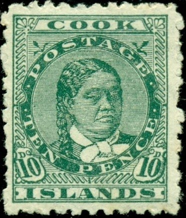 Queen Makea Takau, Ten pence. From 1893 through 1894, the Cook Islands issued a set of definitives picturing Queen Makea Takau.